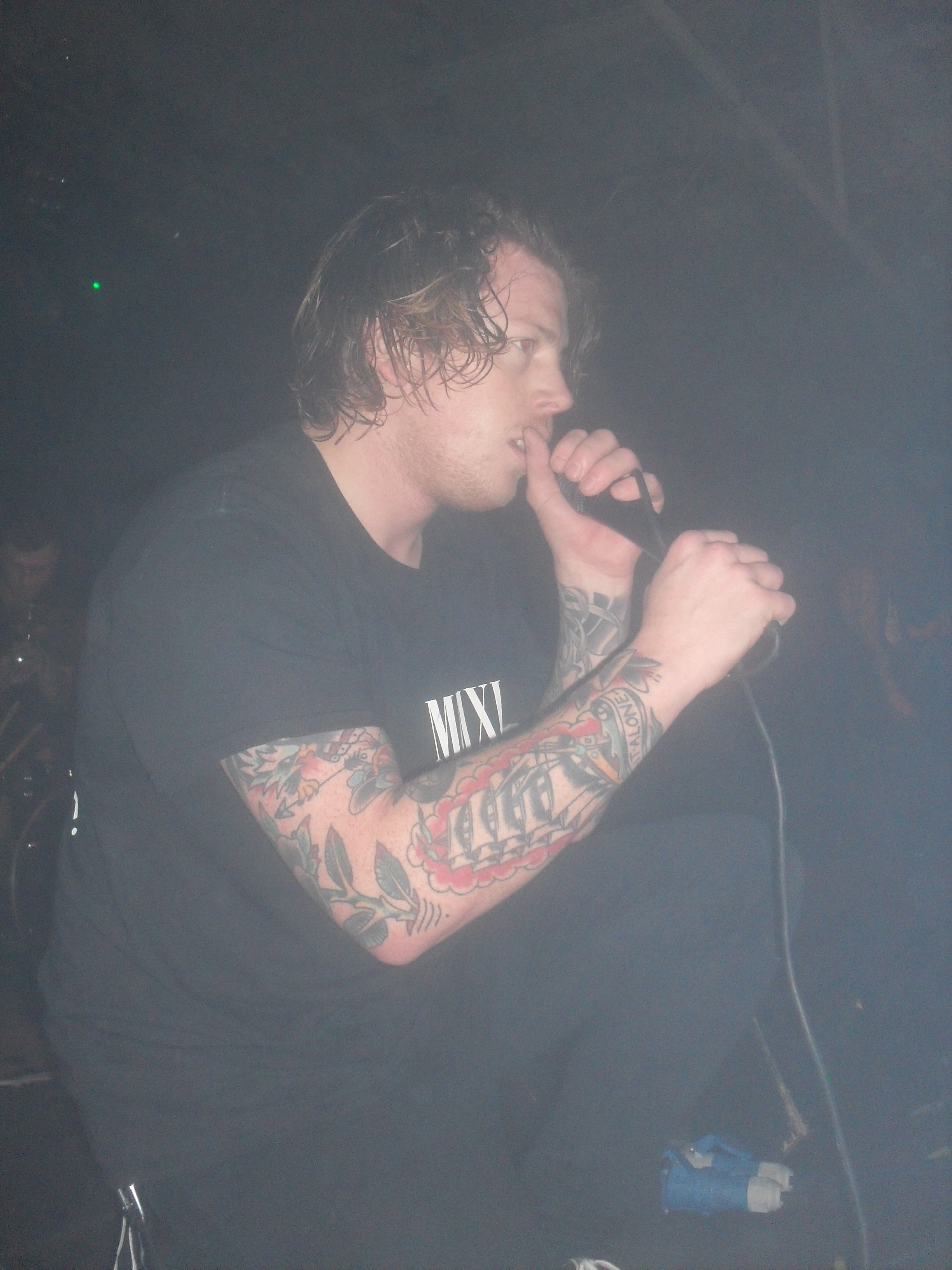 Shaun Milton of Landscapes performs live at Essigfabrik in Cologne during the Defeater 2014 Europe tour.